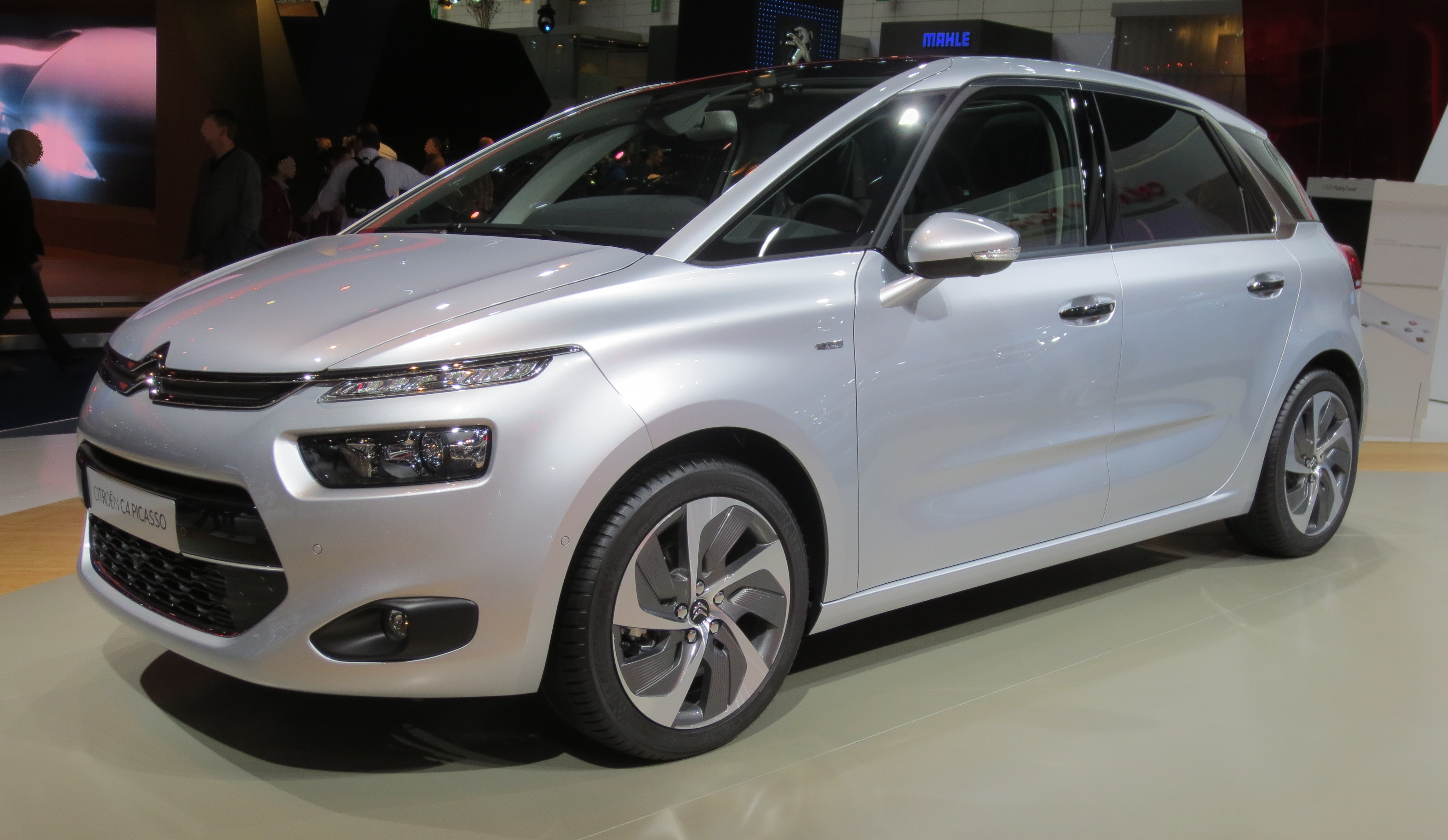 Subject: Citroën C4 Picasso Mk2 5 places Author: Luc106 Date:September 17th, 2013 Event: IAA 2013 Place/Country: Frankfurtermesse, Frankfurt am Main (Deutschland) I release all rights in the public domain.